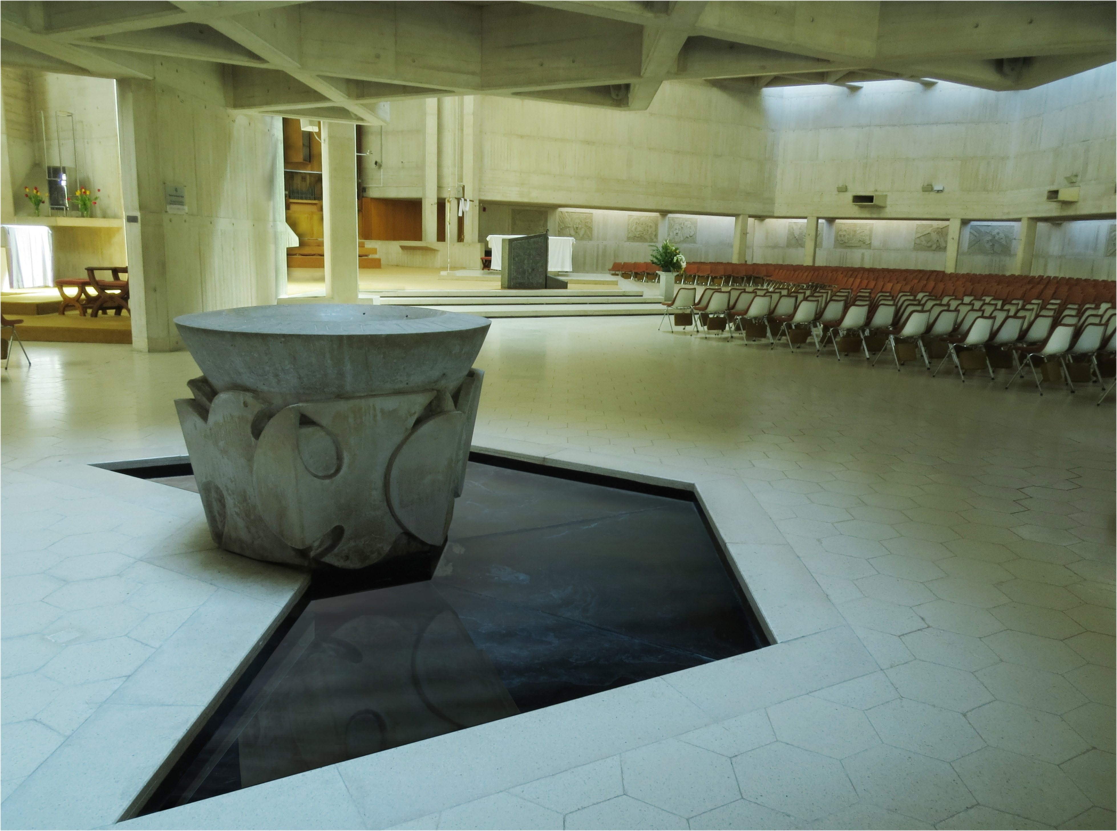 Clifton Cathedral, Clifton Park, Bristol BS8 3BX